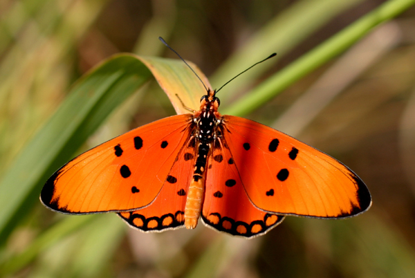 Acraea acrita, male, Uzuzu hill (Malawi)